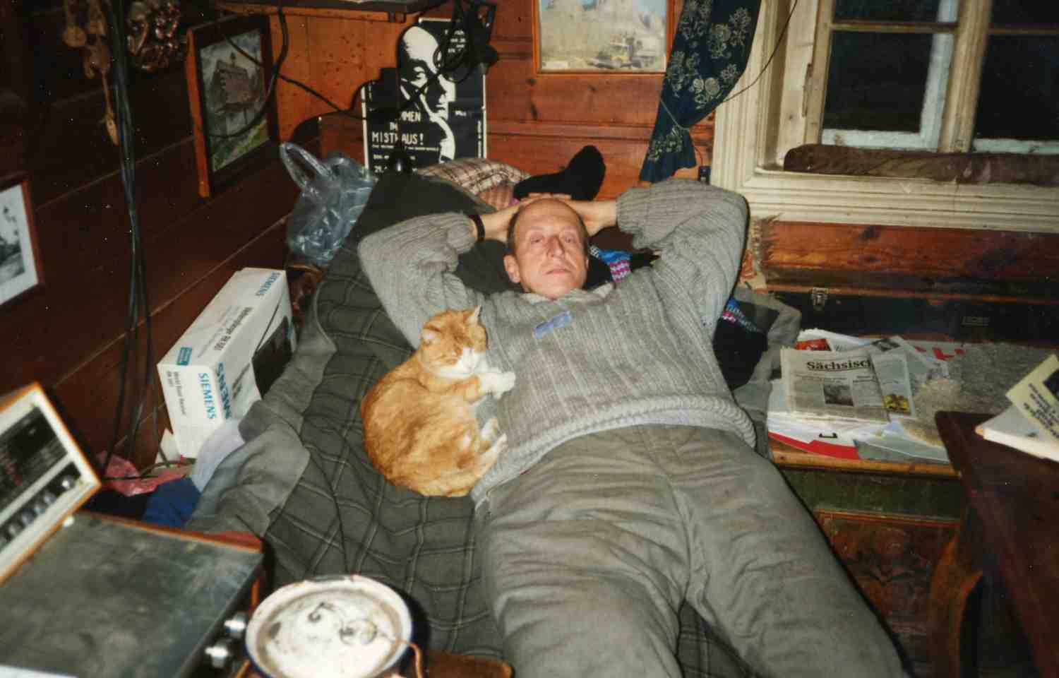 Gustav Ginzel